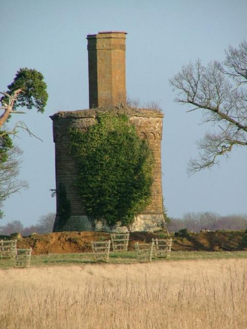 Bourbon Tower in the grounds of Stowe House